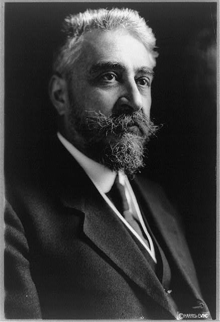 Romanian politician and PM Ionel Bratianu.